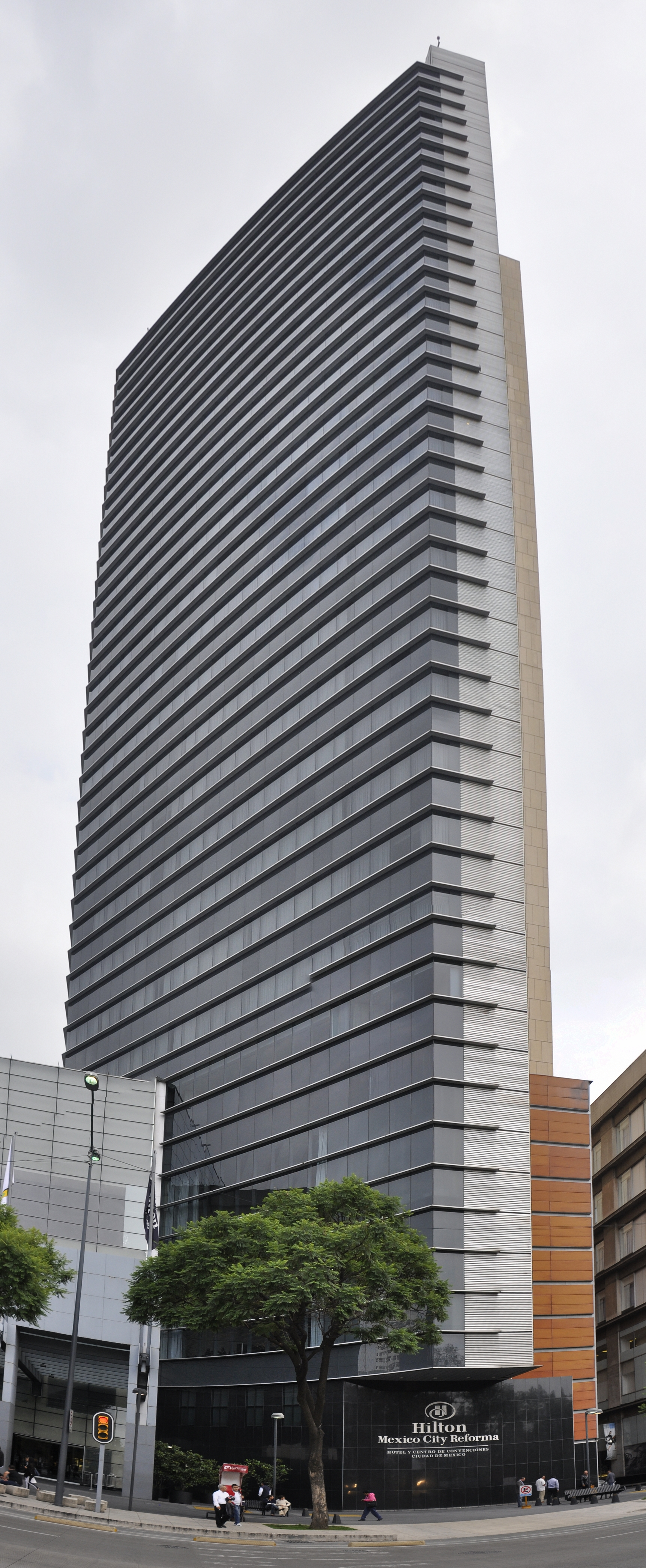 Hilton Mexico City Reforma from the North